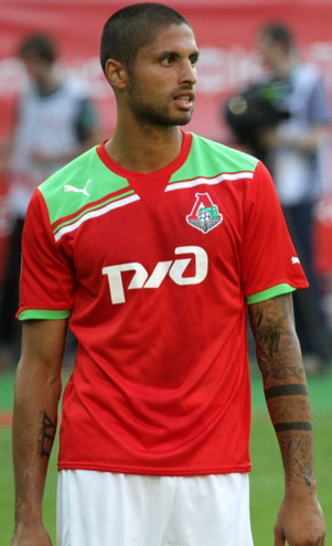 Manuel da Costa